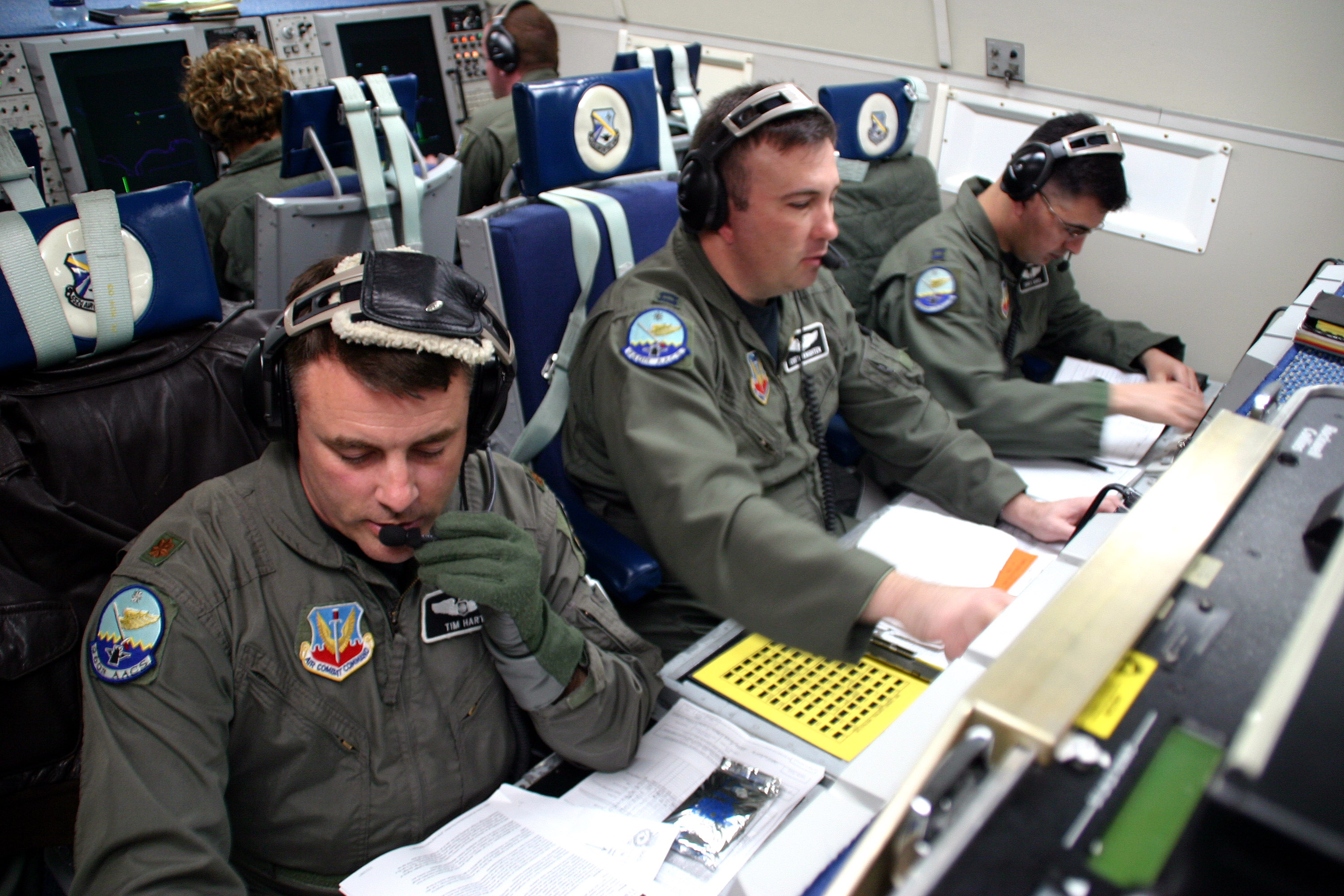 AWACS' special mission: Track Santa: Maj. Tim Hart, Capt. Curtis Knighten and Capt. James Garza conduct air surveillance and command and control operations from an E-3 Sentry. The members of the 960th Airborne Air Control Squadron are preparing for a Christmas Eve Santa tracking mission. Airborne warning and control systems crews will provide additional surveillance as part of Operation Just Claus.